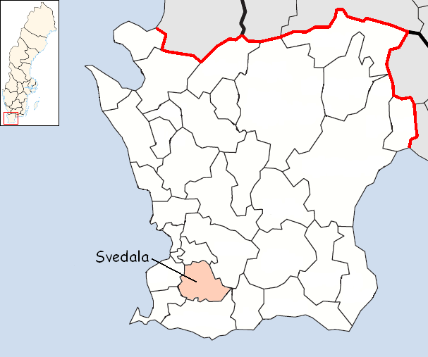 Svedala Municipality in Scania, Sweden Designed by me. Mere outlines are a PD source from